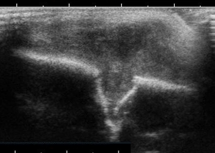 Ultrasound of eosinophilic granuloma in a 1 year old